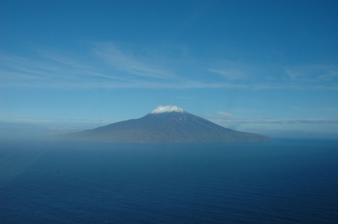 View of Gareloi Island in the Aleutian Islands from the west.